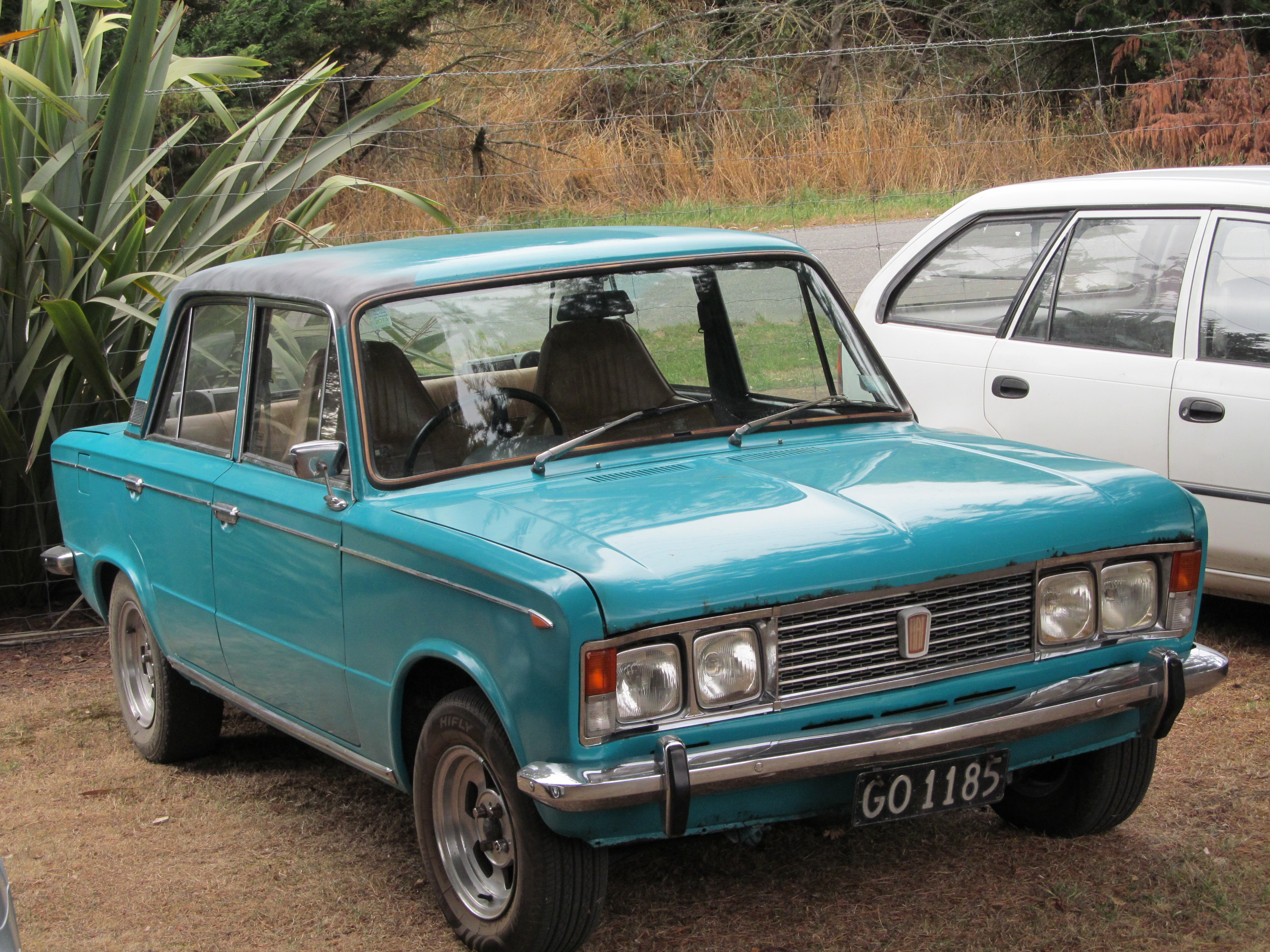 GO1185 This was somewhere in between tidy and ratty, but let's just be glad it's still on the road. I don't think many 125s were sold here in New Zealand, although I recall Graham saying he used to drive a few as company vehicles.